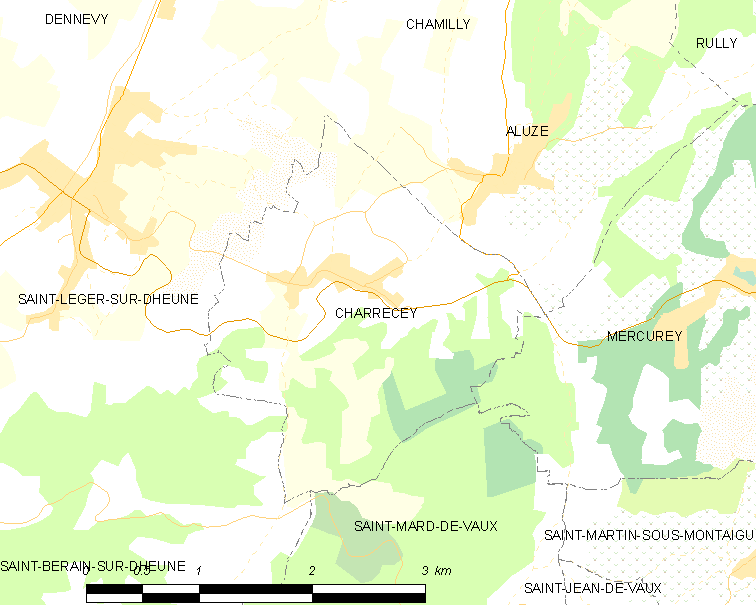 Map of French municipality